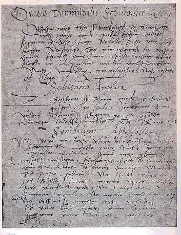 Starogorski rokopis (the Castelmonte manuscript), one of the monuments of Slovene language. Contains three prayers: Lord's Prayer, Apostle's Creed and Hail Mary.